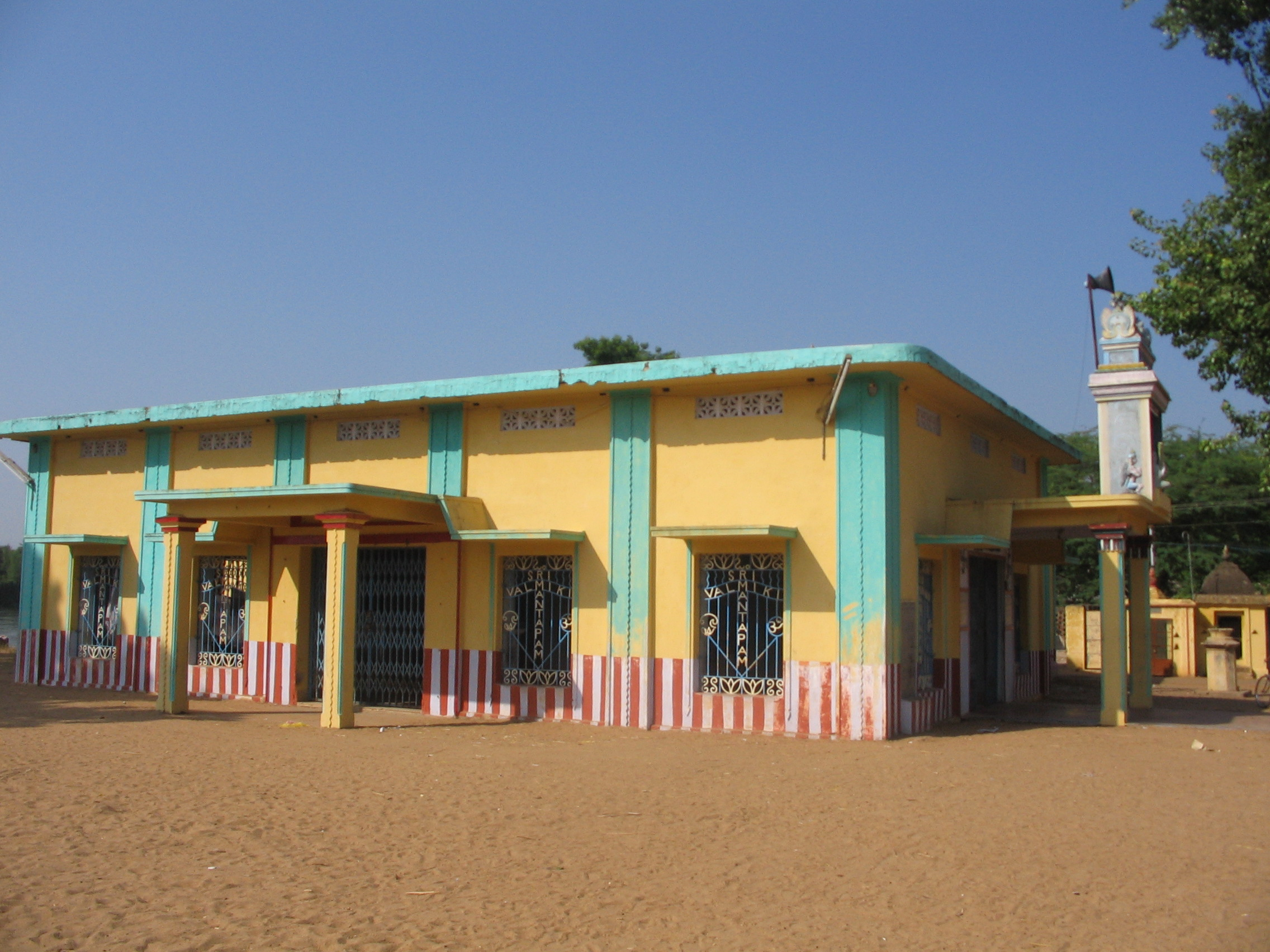 Sri Tyagaraja Swamy samadhi mandir in Tiruvaiyaru